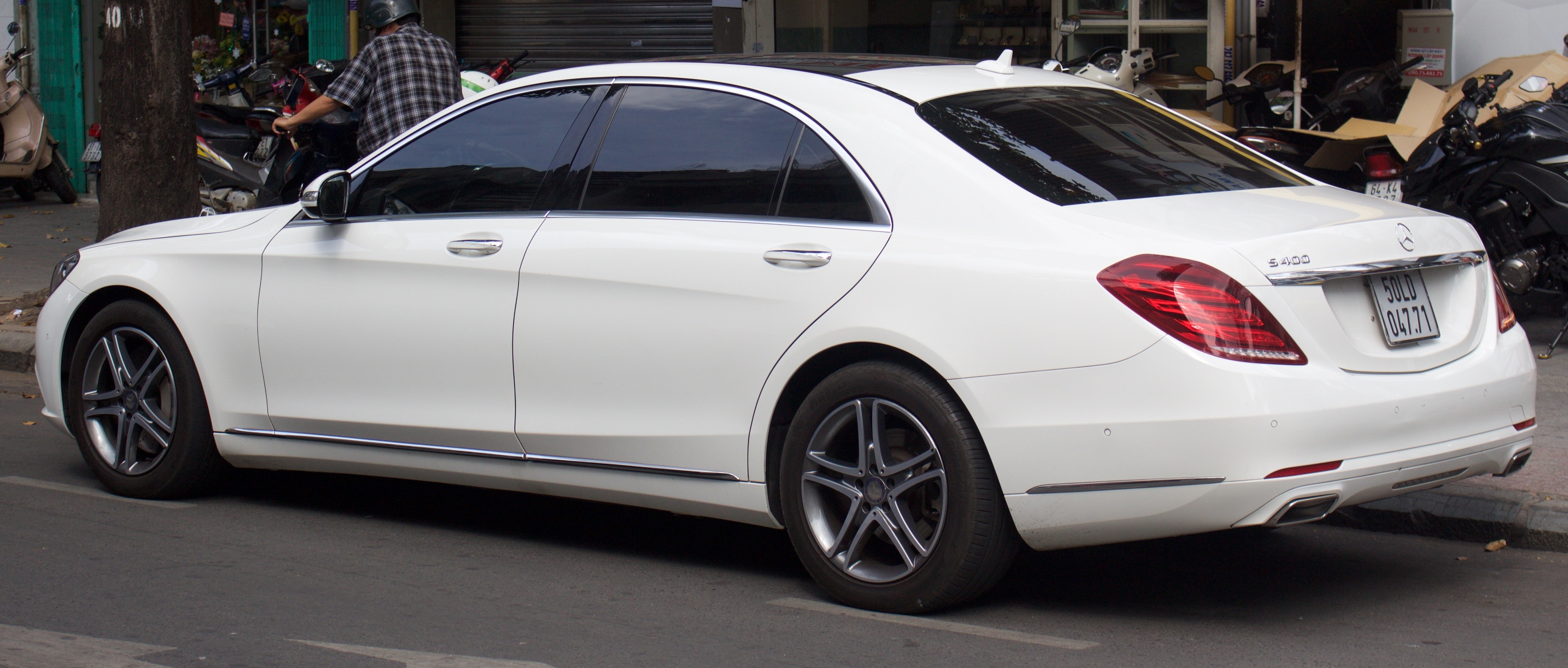 2014 Mercedes-Benz S 400 (V 222) sedan. Photographed in Ho Chi Minh, Vietnam.